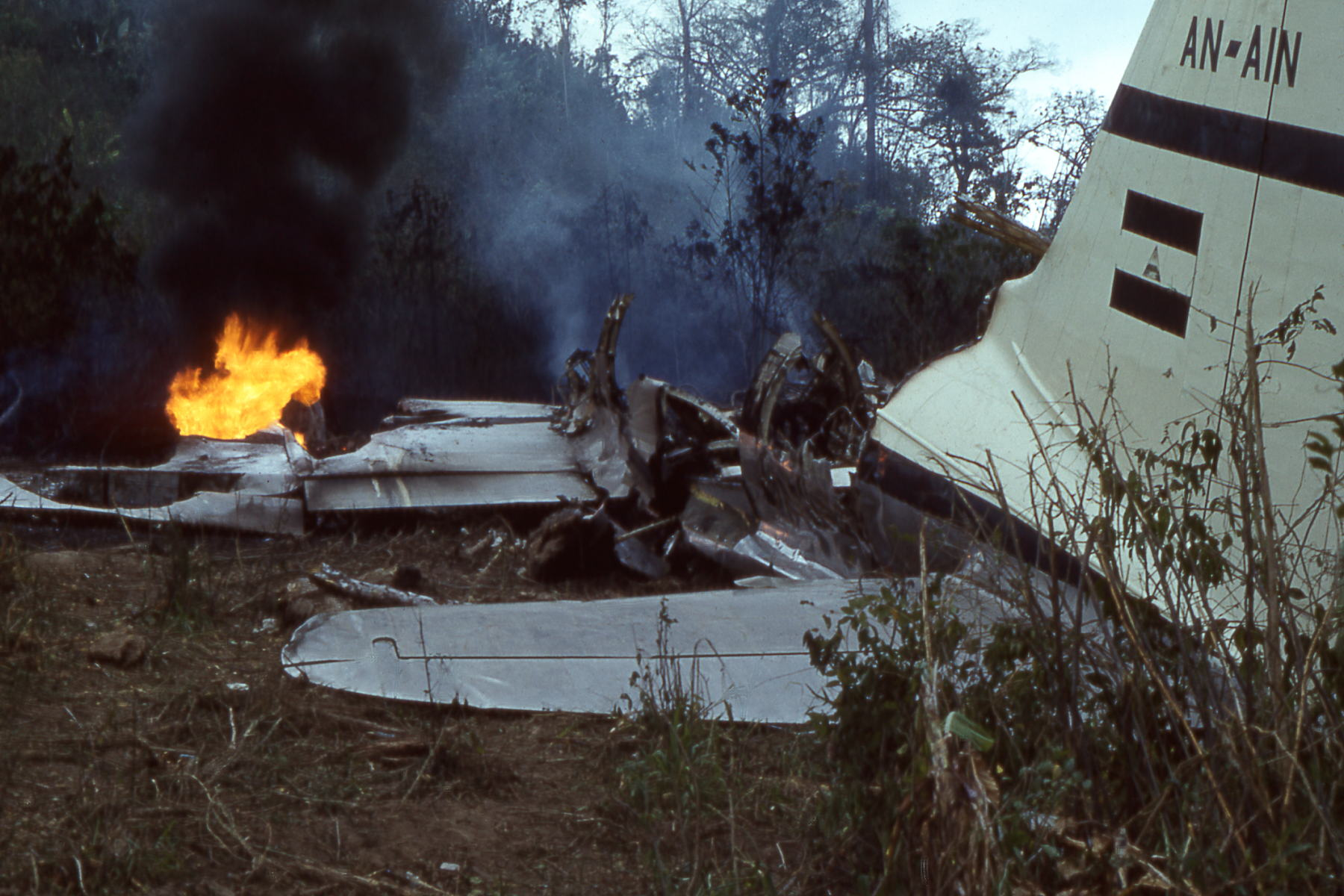 C-46 airplane crash near Siuna to Rosita road. This photo dates from 05 April 1960, the aircraft being a LANICA Curtiss C-46A-40-CU that crashed after takeoff 2,4 km from Siuna, Nicaragua.)